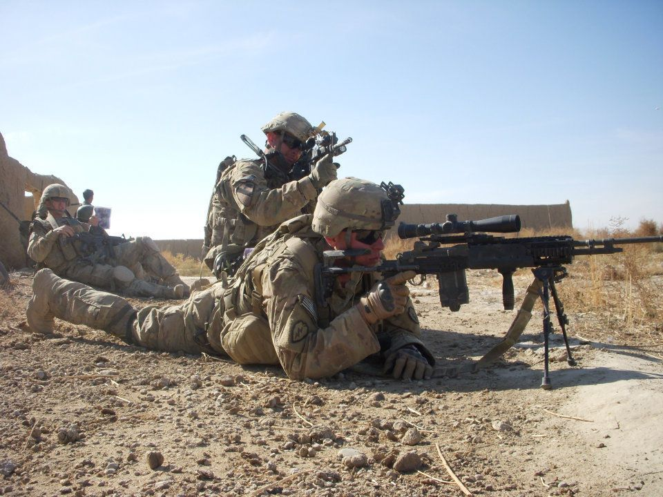 Sgt. James Bailey scans his sector during a combat mission in Kandahar province, Afghanistan March 27. Bailey is a Cavalry Scout with the 5th Squadron, 1st Cavalry Regiment, 1st Stryker Brigade Combat Team, 25th Infantry Division based out of Fort Wainwright, Alaska.